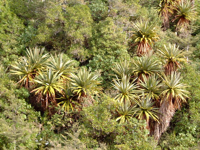 Cordyline indivisa on Mt. Ruapehu, June 2002